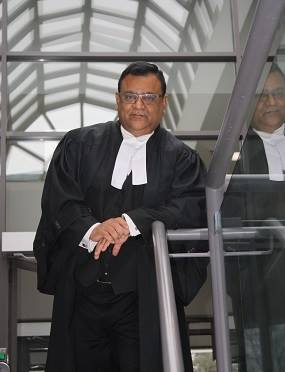 Senior Counsel at the PERSAUD LAW GROUP